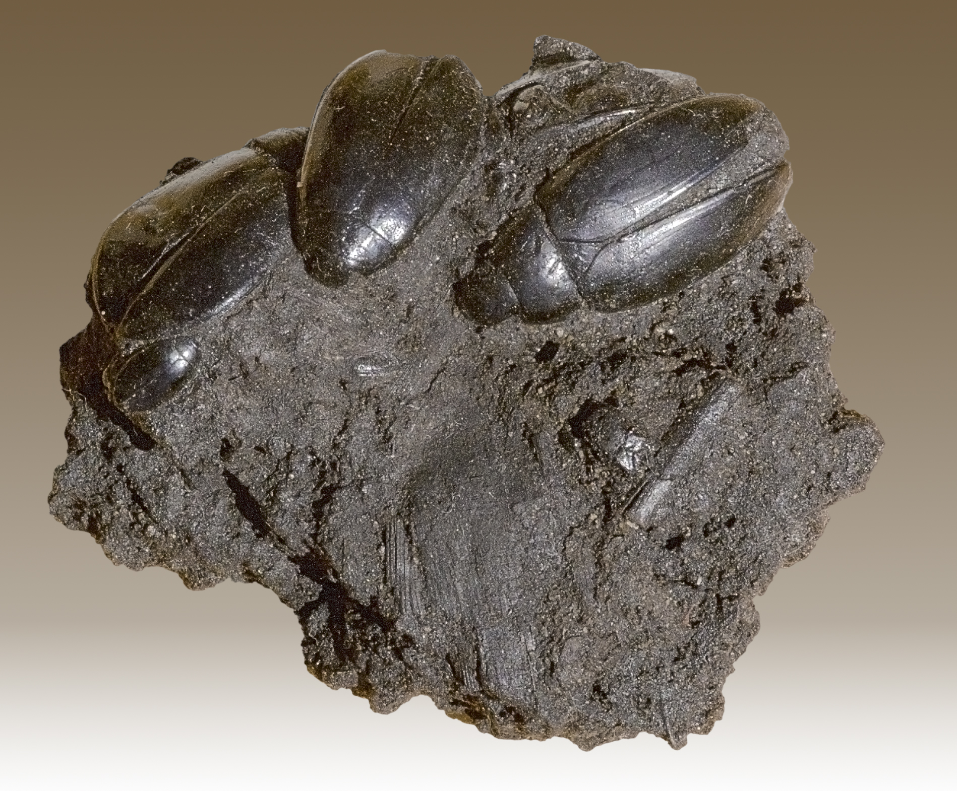 Hydrophilius sp. Stage : Pleistocene from 35, 000 years old Locality: La Brea Tar Pits, Kern County, California Size : 12 cm